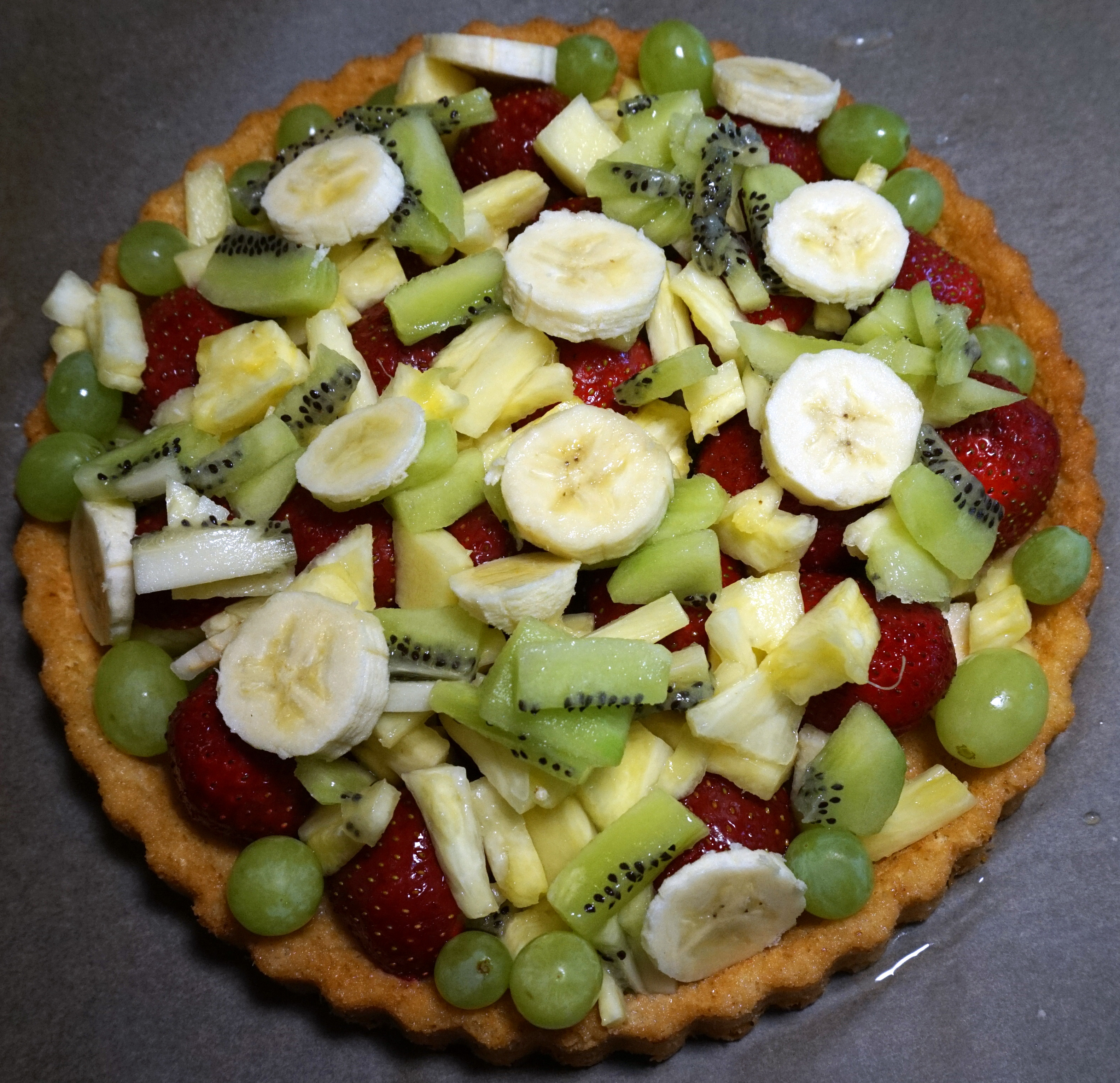 Fruit tart before topping it. It includes strawberries, banana, grapes, ananas, kiwi and pear.